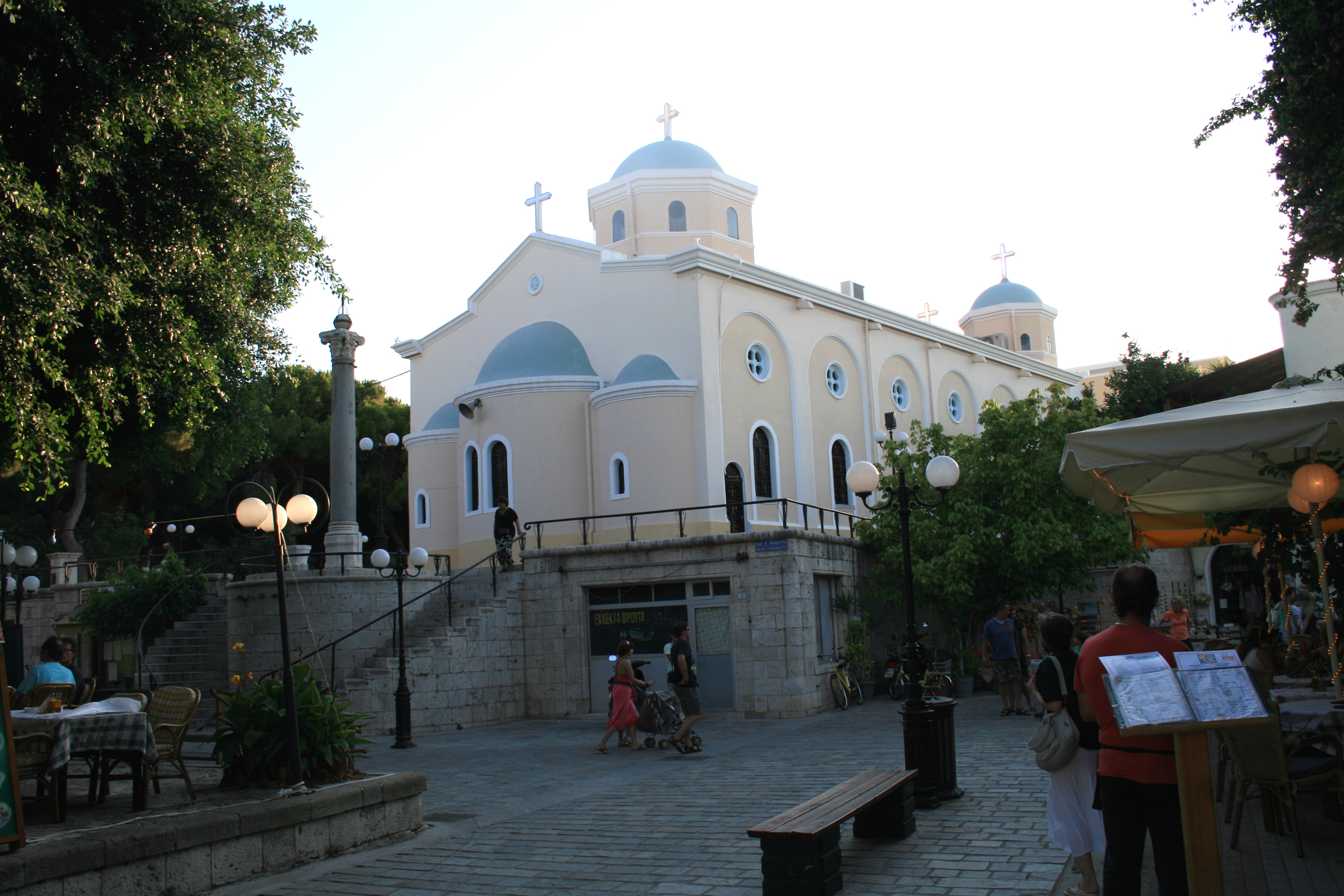 Christian church in the centre of town Kos on Kos island, Greece